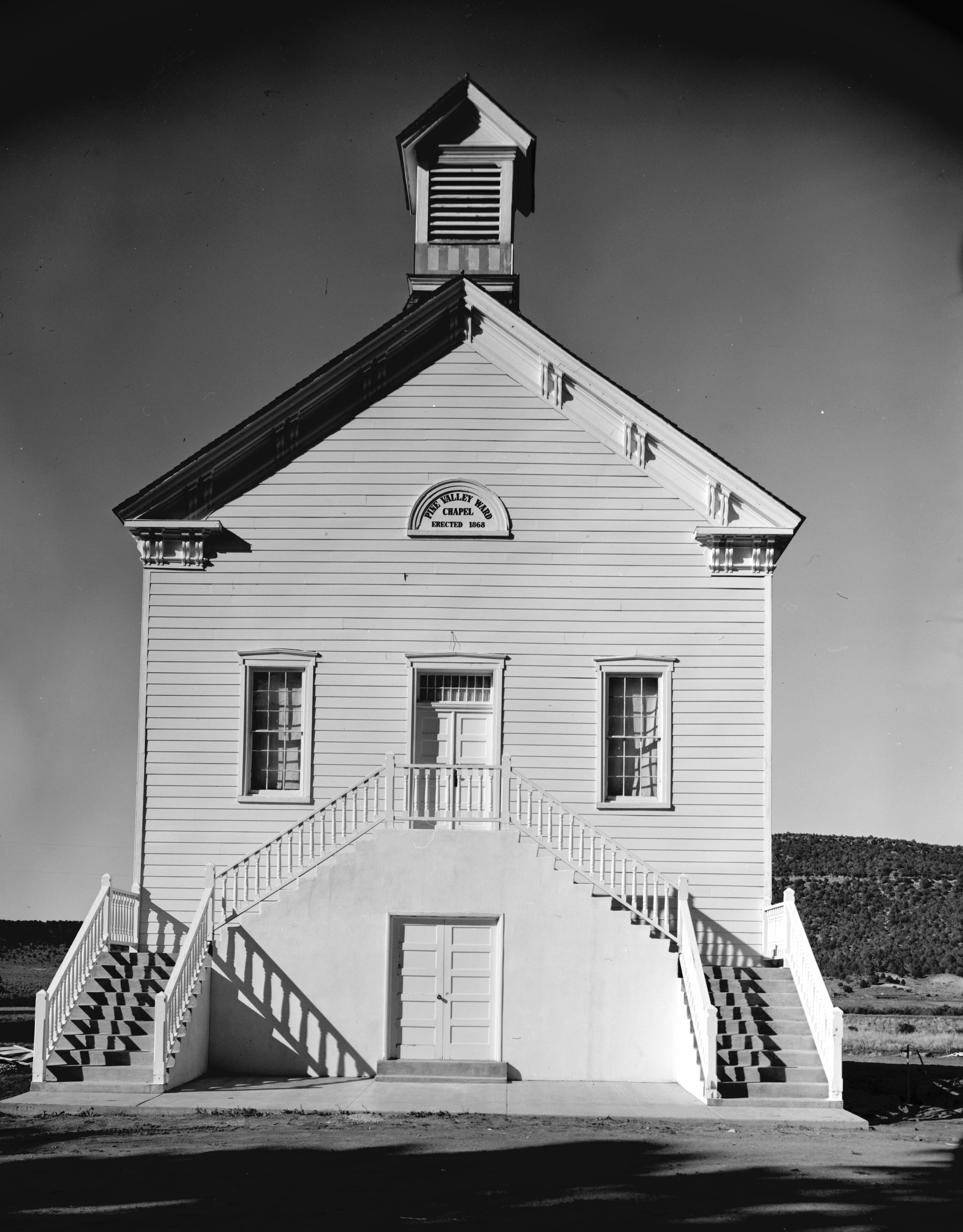 Front of the Pine Valley Ward Chapel, located at the intersection of Main and Grass Valley Streets in Pine Valley, Utah, United States. Built in 1868, it is listed with an adjacent tithing office as the "Pine Valley Chapel and Tithing Office" on the National Register of Historic Places.